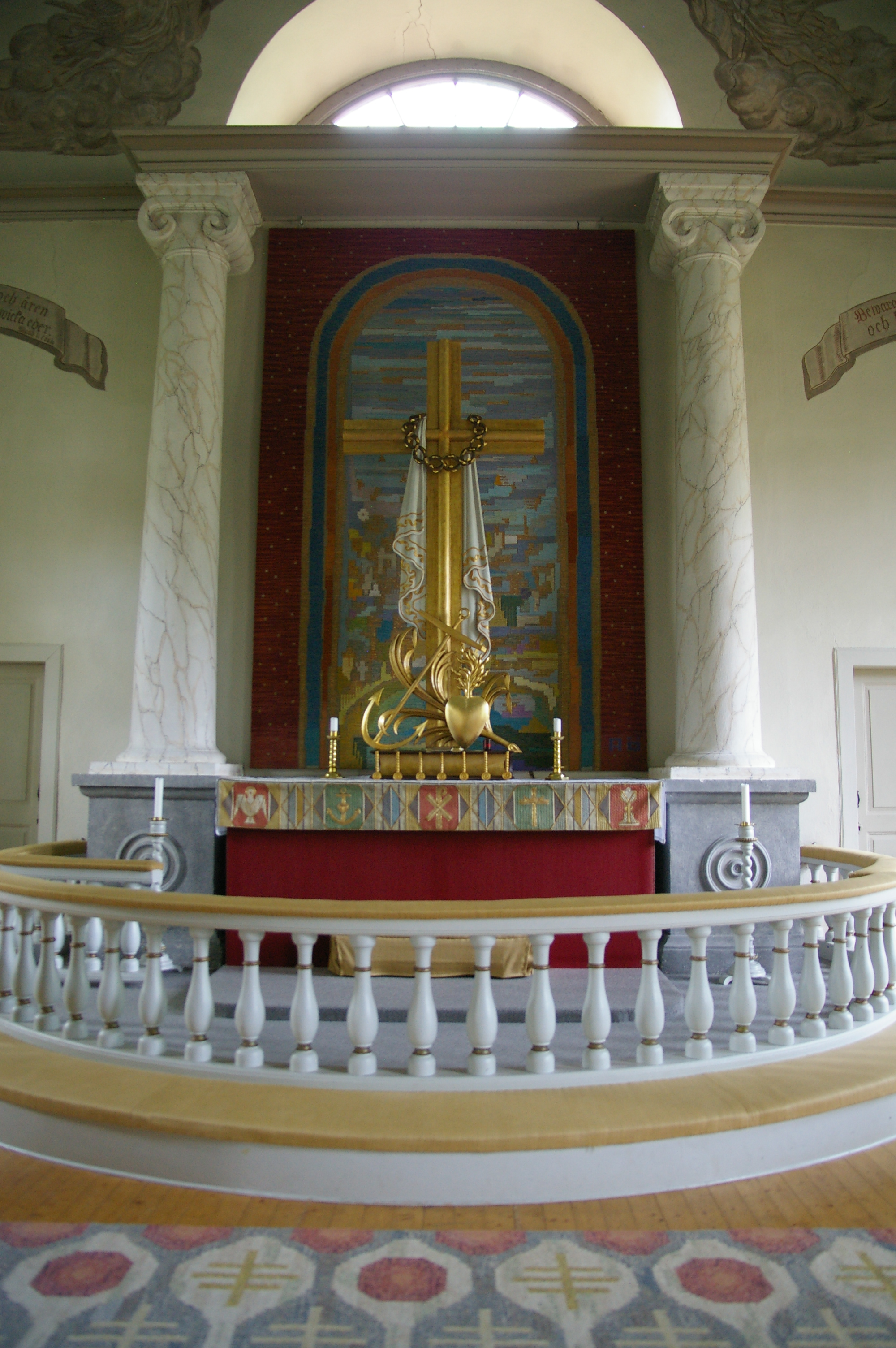 Yllestads kyrka (Swedish:Church of Yllestad) in Västergötland, Sweden